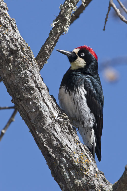 A male Acorn Woodpecker near Santa Margarita Lake, San Luis Obispo, California, USA.